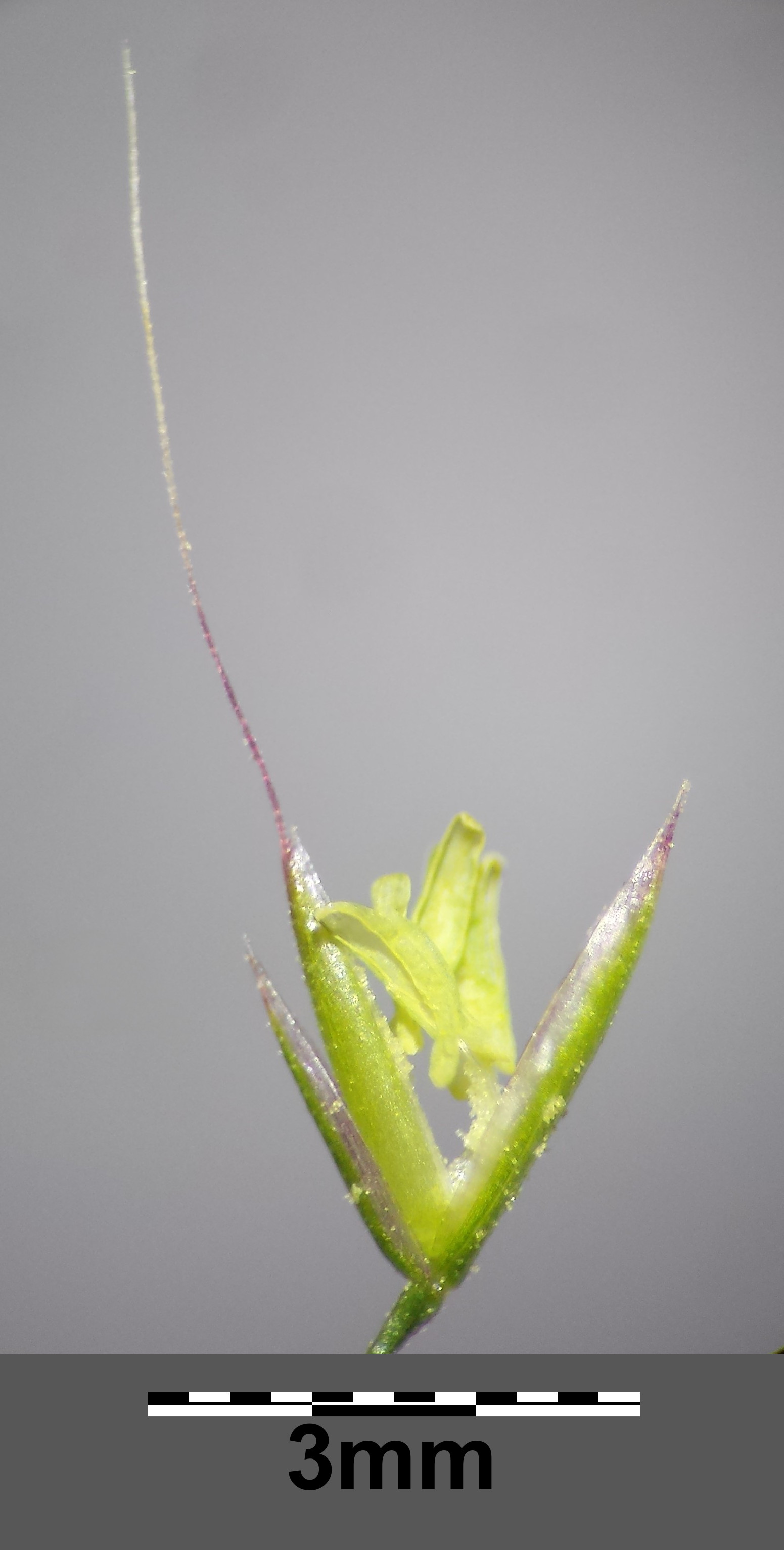 Spikelet Taxonym: Apera spica-venti ss Fischer et al. EfÖLS 2008 ISBN 978-3-85474-187-9 Location: Stammersdorf, Vienna-Floridsdorf - ca. 160 m a.s.l. Habitat: border of a field